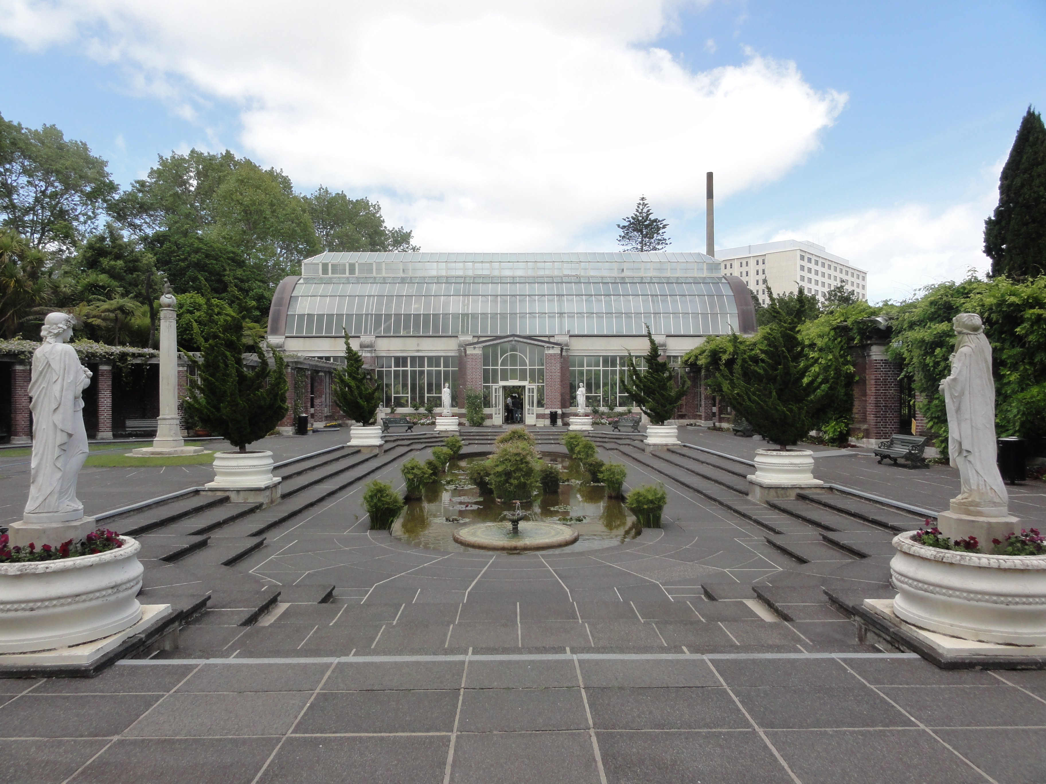 Auckland Domain Winter Garden tropical house